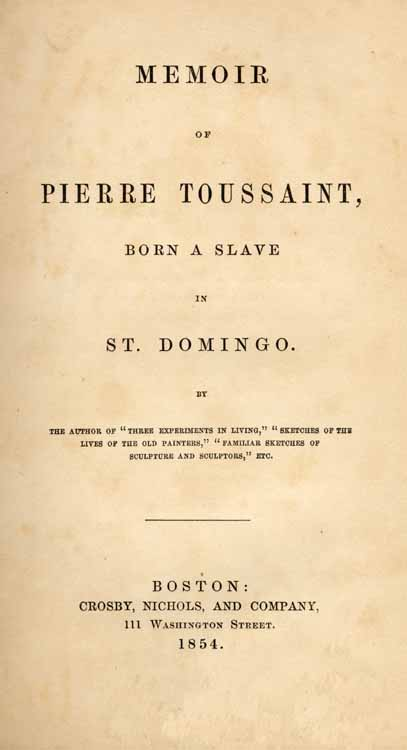 Title Page Image from Memoir of Pierre Toussaint